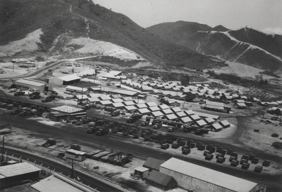 11th Motor Transport Battalion base, Da Nang